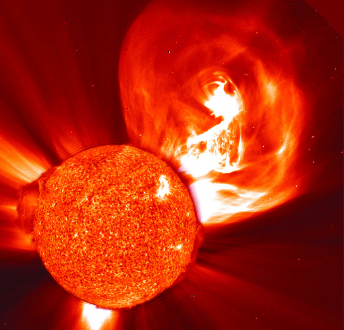 Solar storm shooting into space.